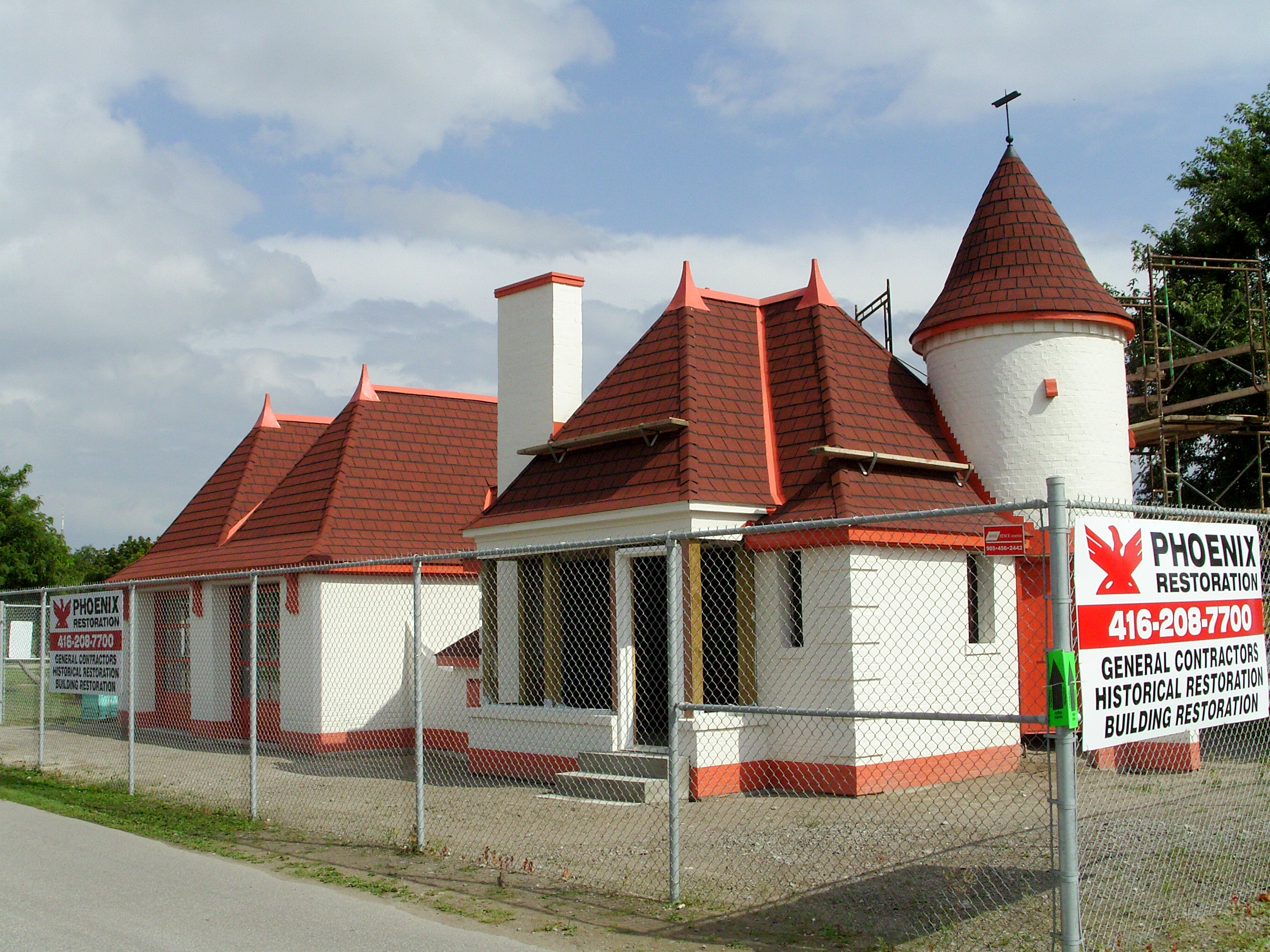 The old 'Joy Oil' gas station, now a heritage structure has been relocated to Gzowski Park, and is being restored.